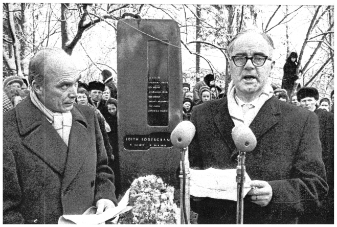 Photograph of the Finnish writers Oscar Parland (1912–1997) and J. O. Tallqvist (1910–1993) speaking at the unveiling of the memorial for Edith Södergran in 1960.